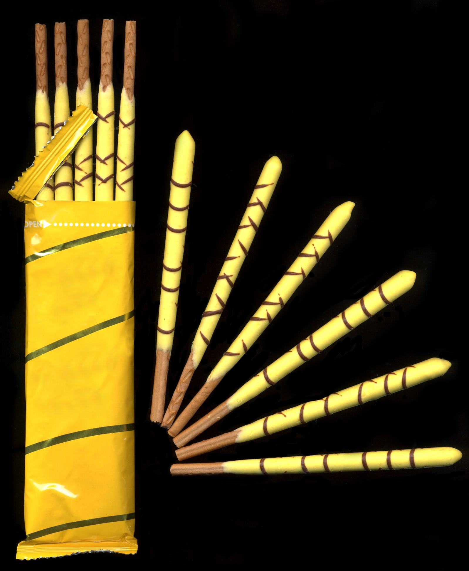 Pocky custard fondu